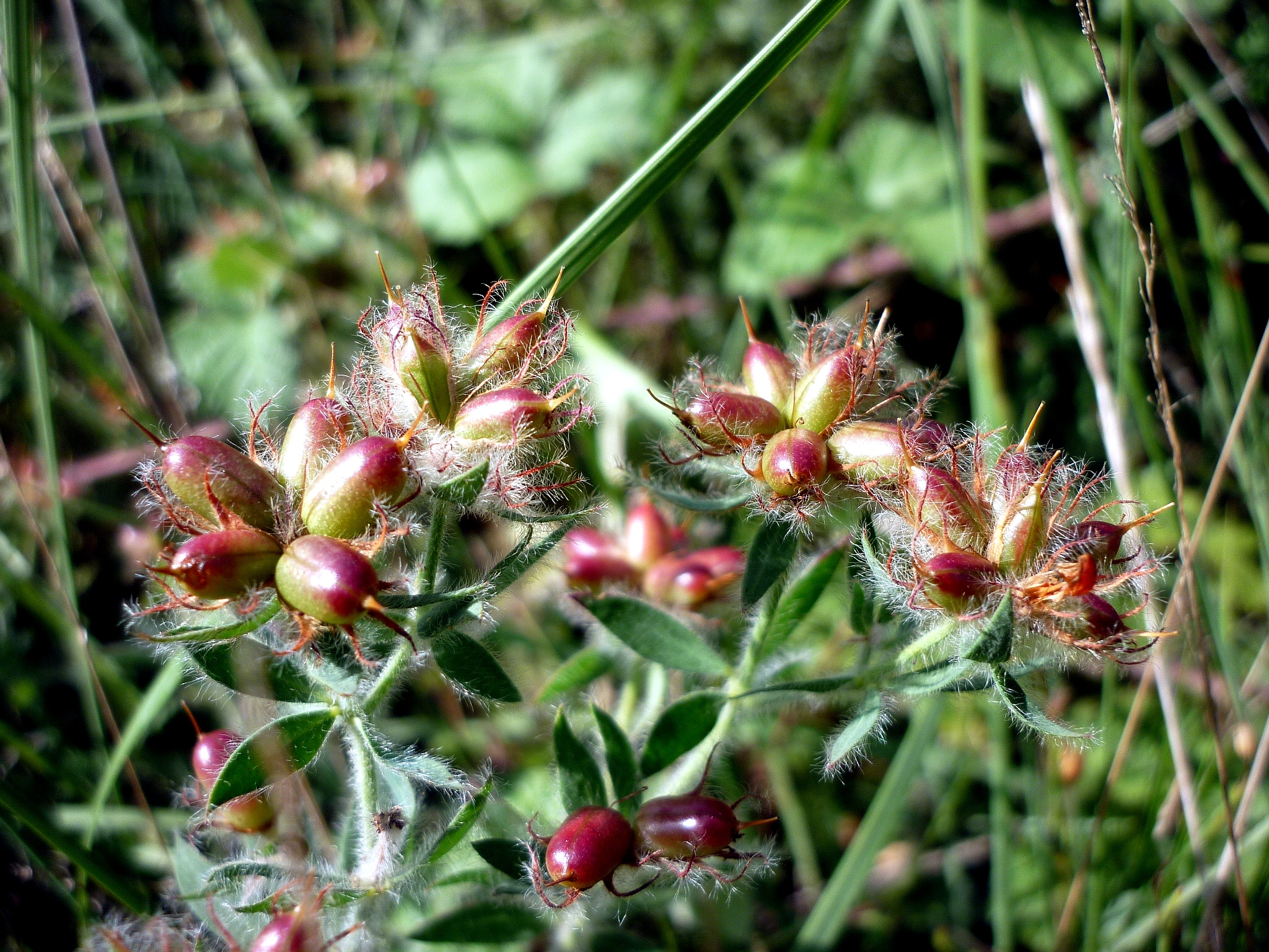 Dorycnium hirsutum . In Pinós (Solsonès - Catalunya). To 605 m. altitude